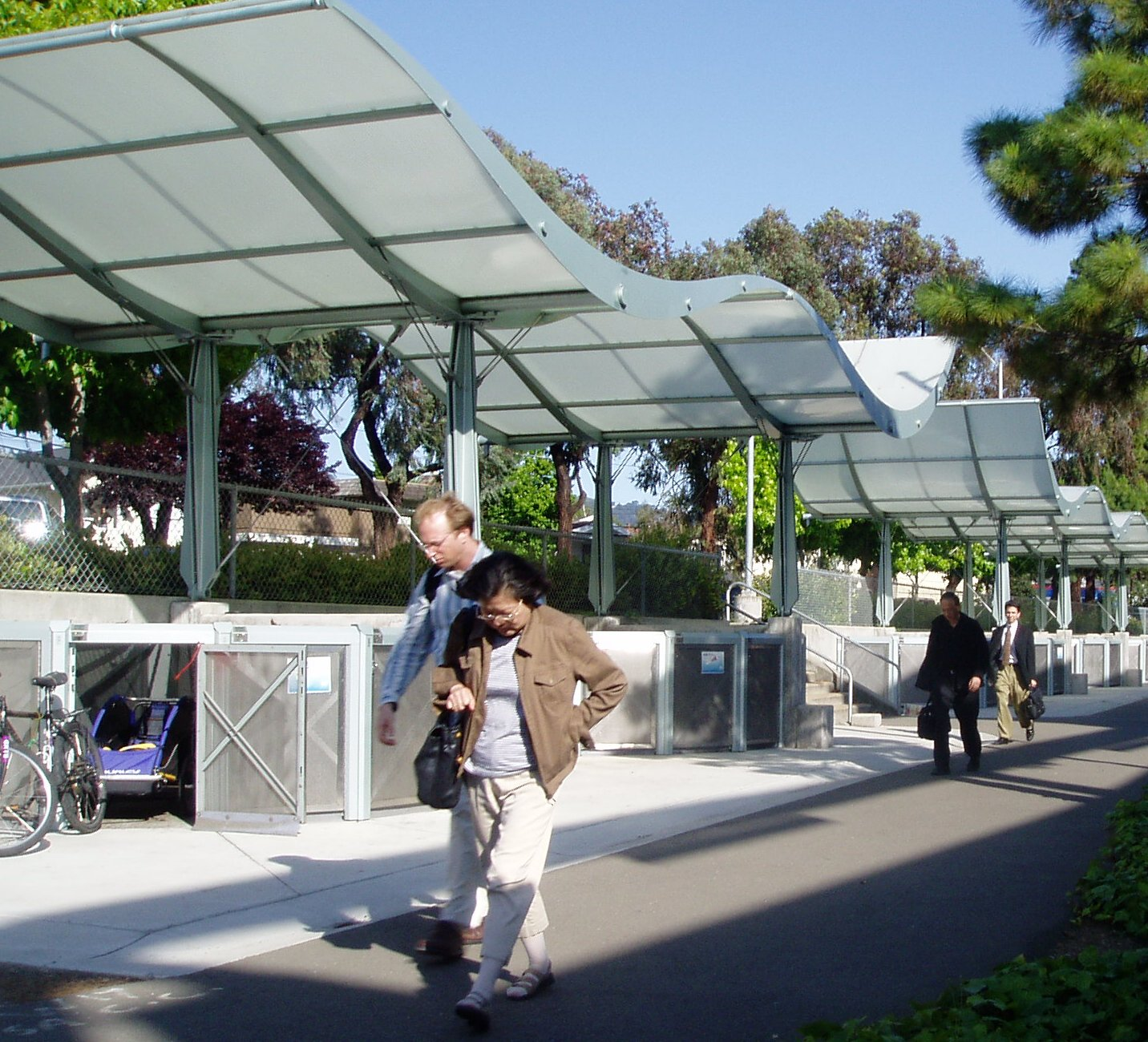 Commuters exiting El Cerrito Plaza BART rail station, walking next to the electronic bicycle lockers.